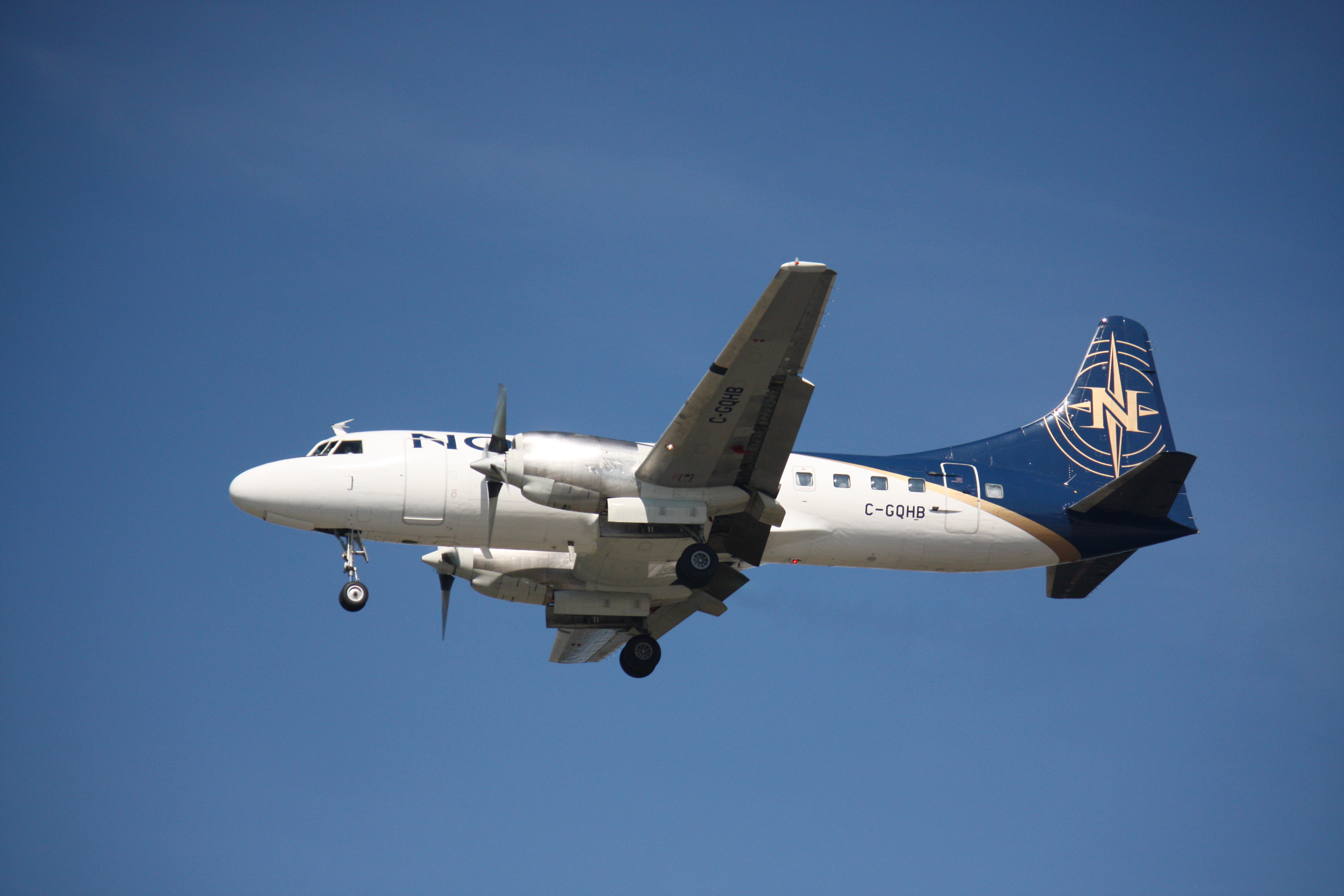 A Nolinor Aviation Convair 580, tail number C-GQHB, landing at Vancouver International Airport